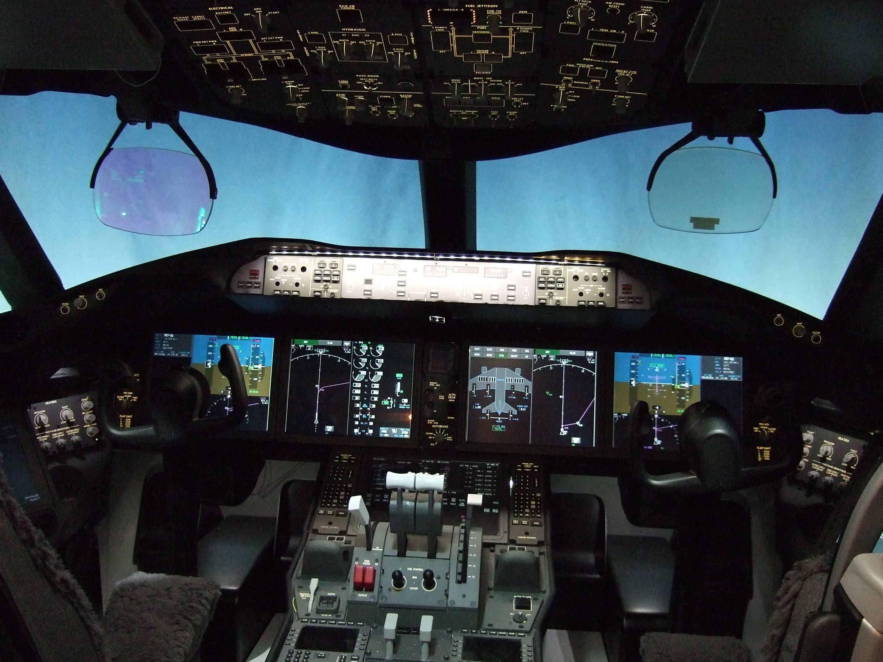 Flight deck of the Boeing 787 Dreamliner